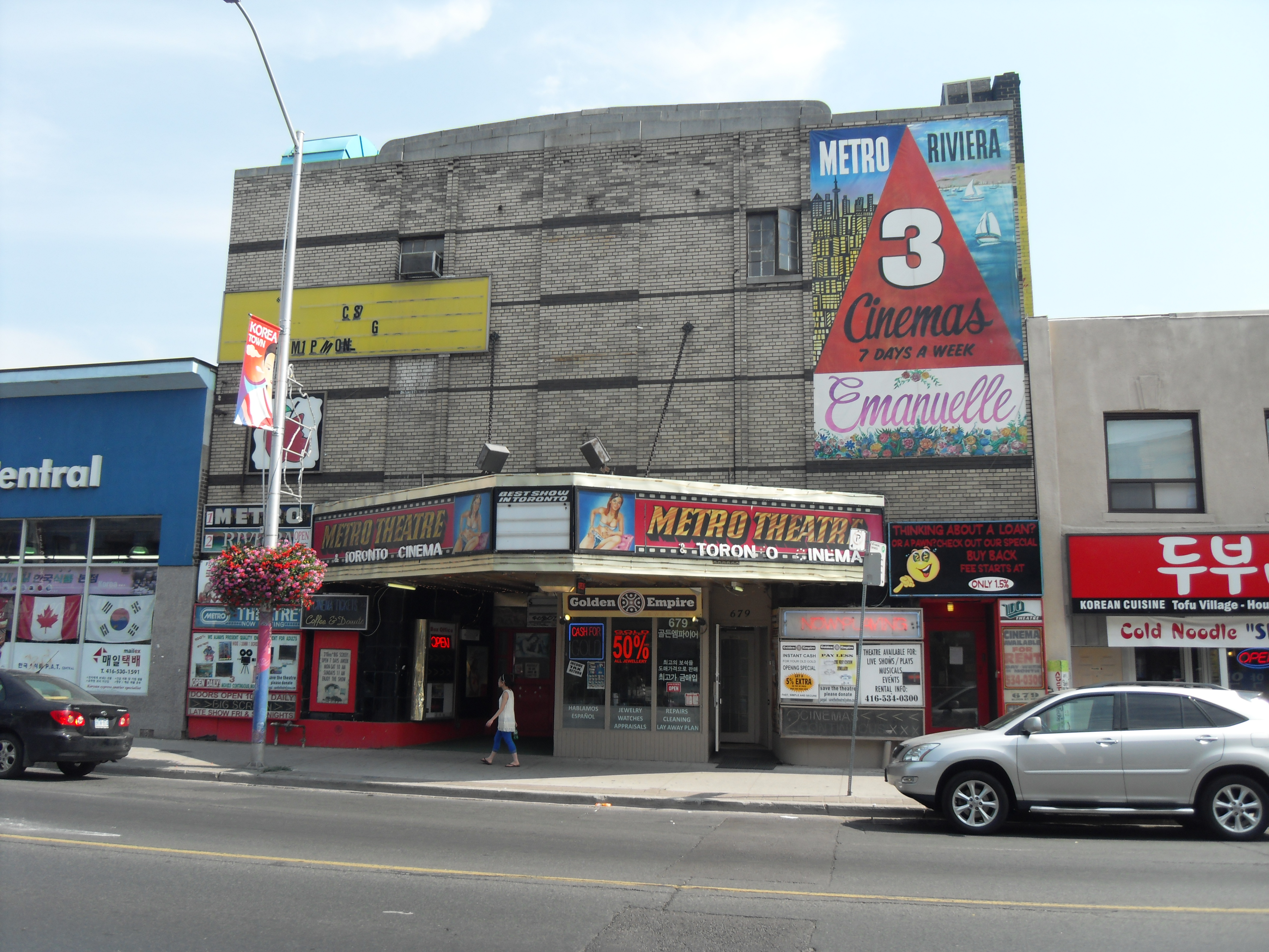 677 Bloor Street West Toronto Opened April 7th 1939 More Information can be found at "Cinema Tresaures"